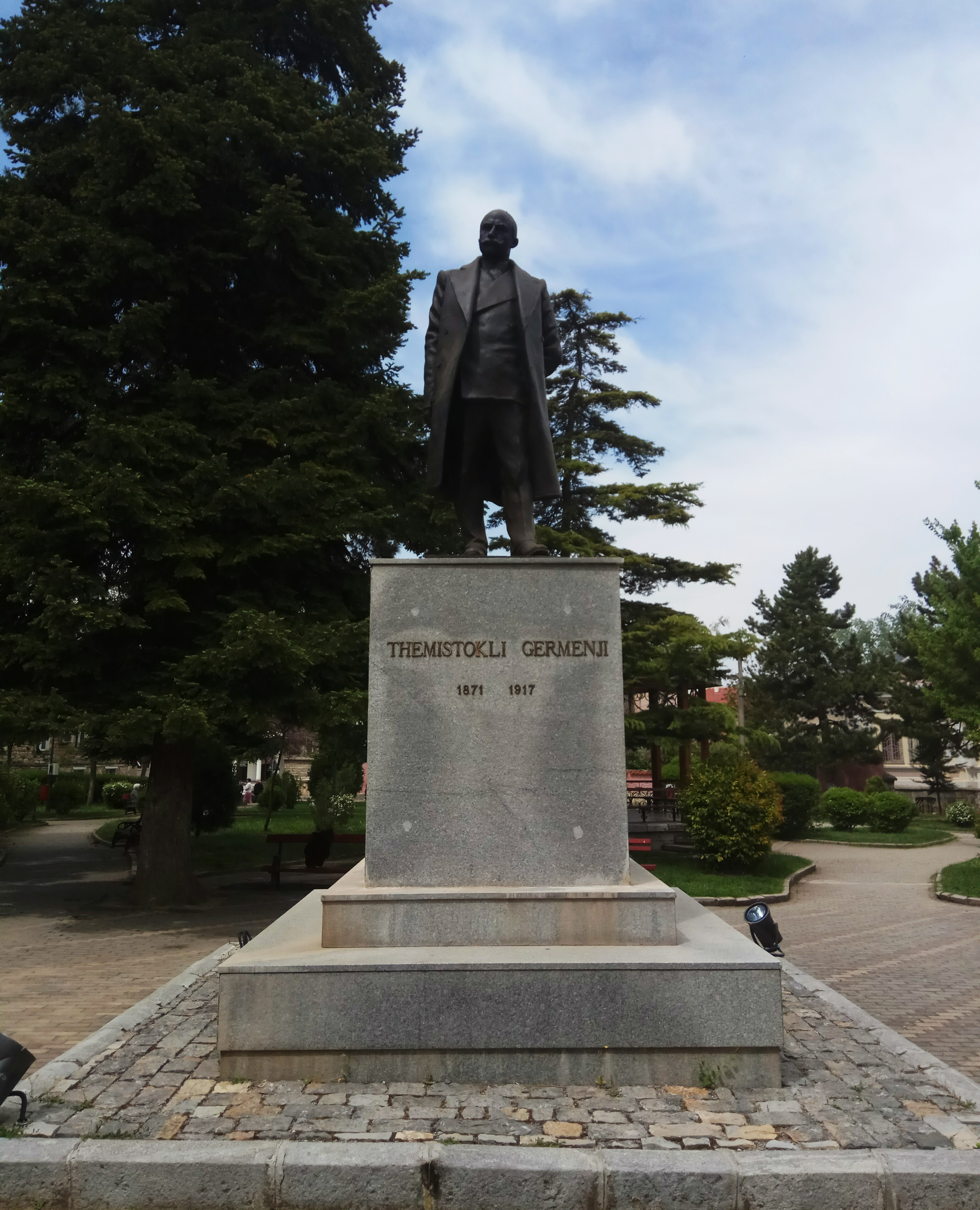 Monument of "Themistokli Gërmenji" located at Republika Bulevard in Korçë, Albania.